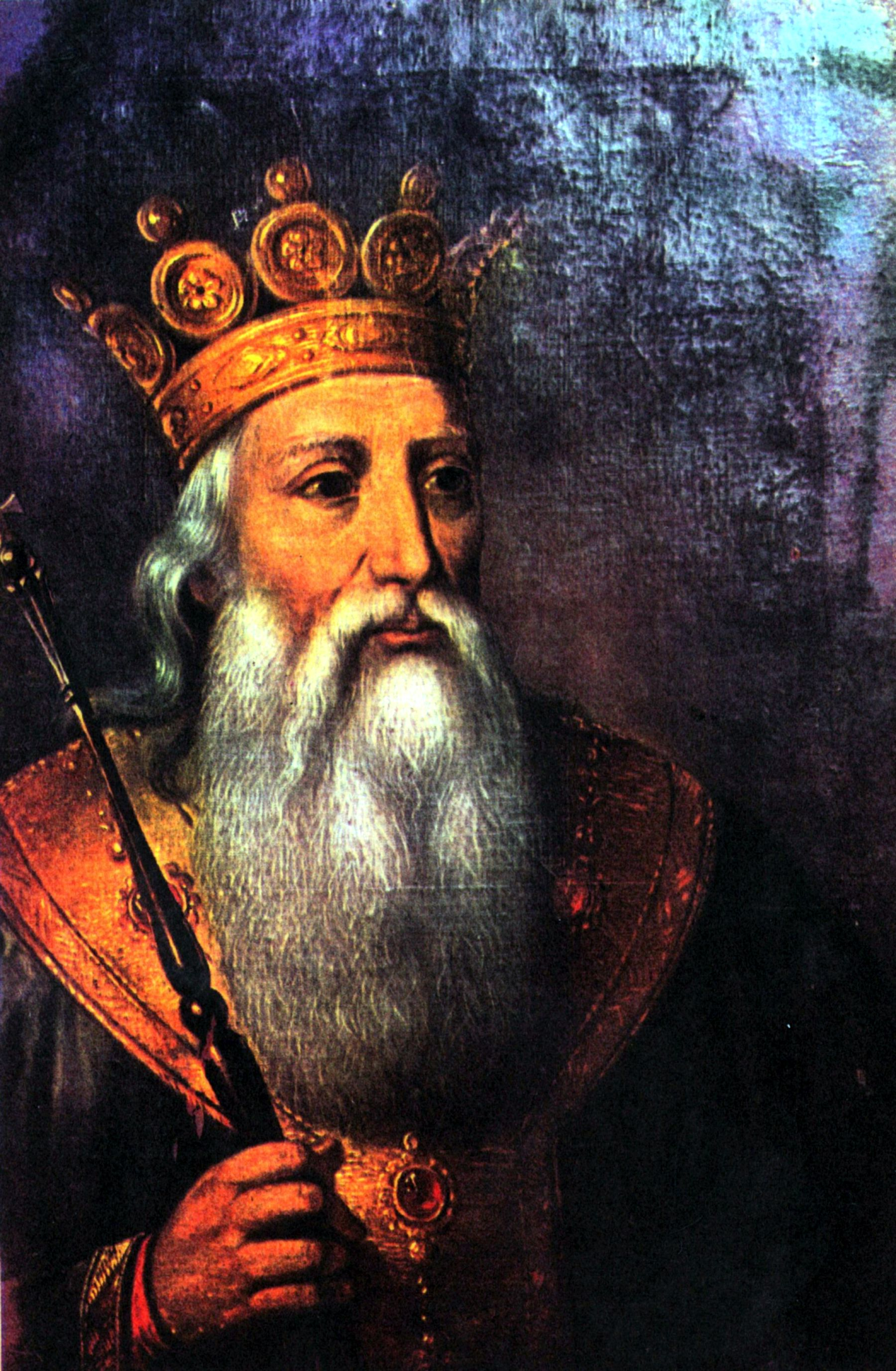 Roman I Muşat